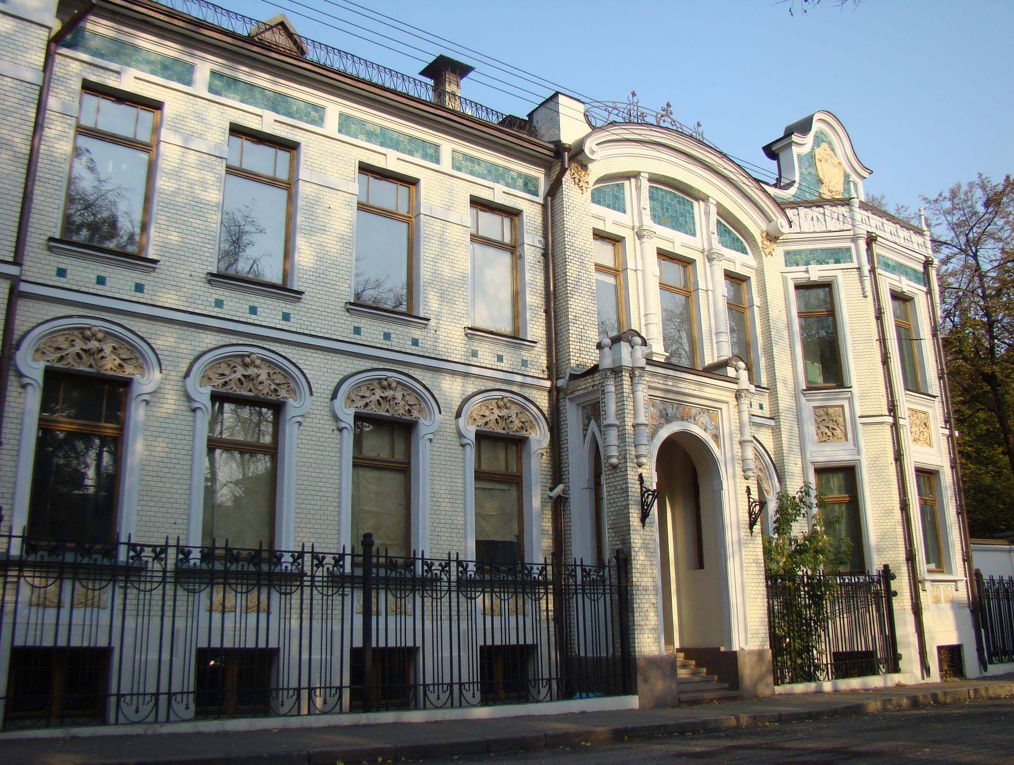 Flegont Voskresenski residence of N. Medyntsev 1907, Moscow